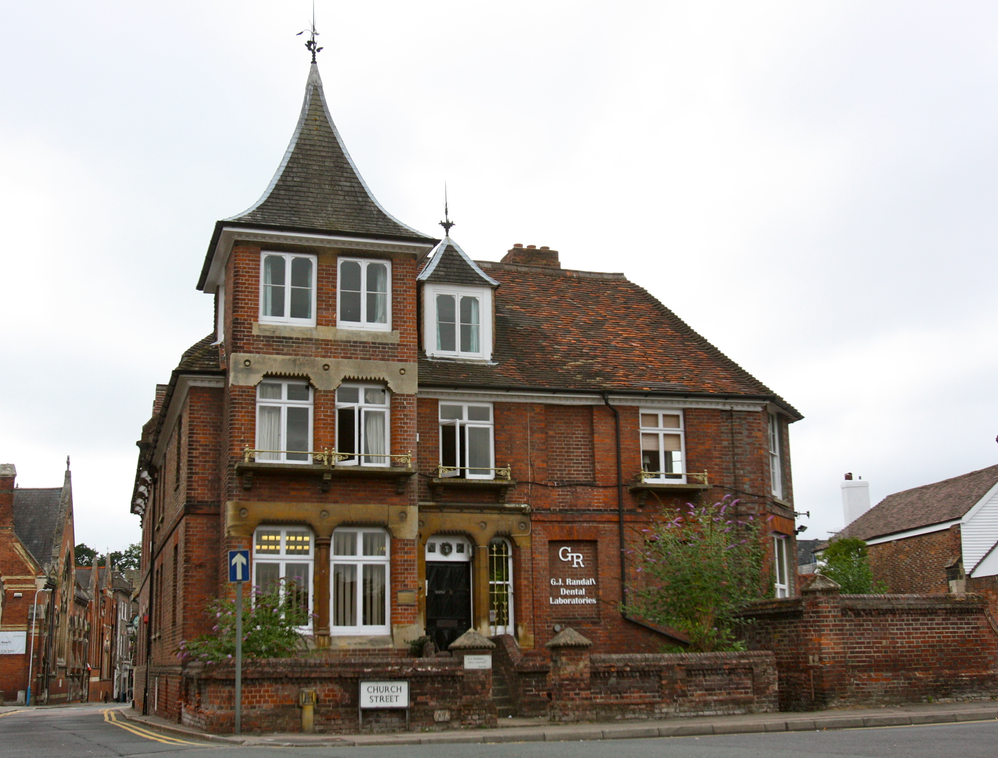 Stafford House, the previous site of The Judd School, located in East Street, Tonbridge.